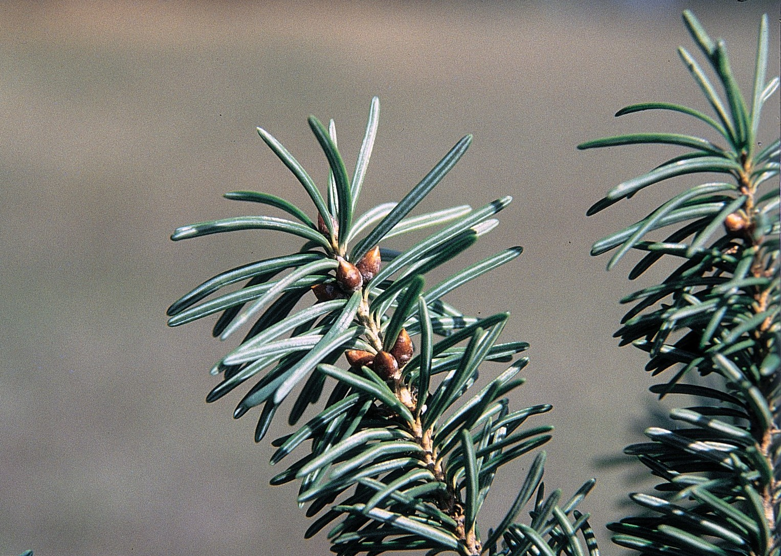 Rocky Mountain Douglas-fir. Branch.